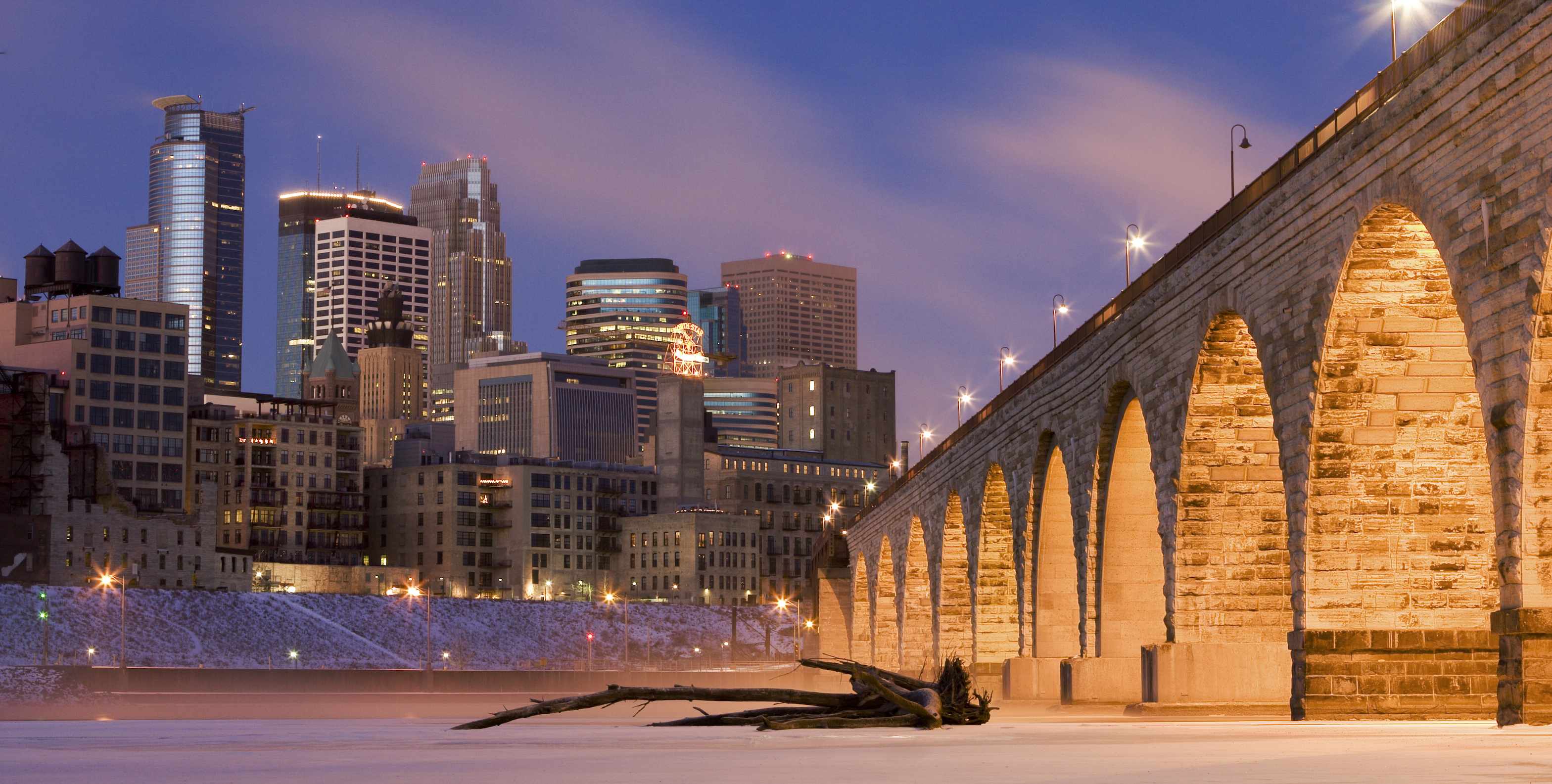 Downtown Minneapolis from across the Mississippi River. At right, the Stone Arch Bridge.